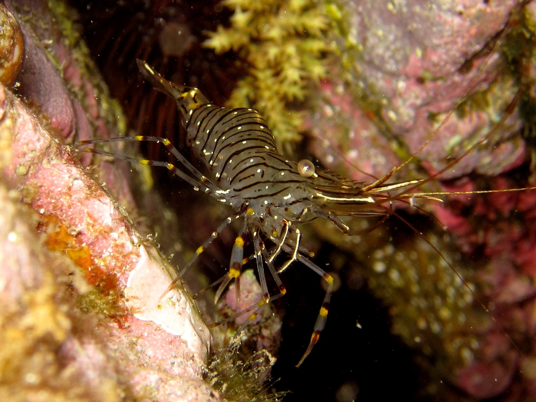 Palaemon elegans in Catalonia